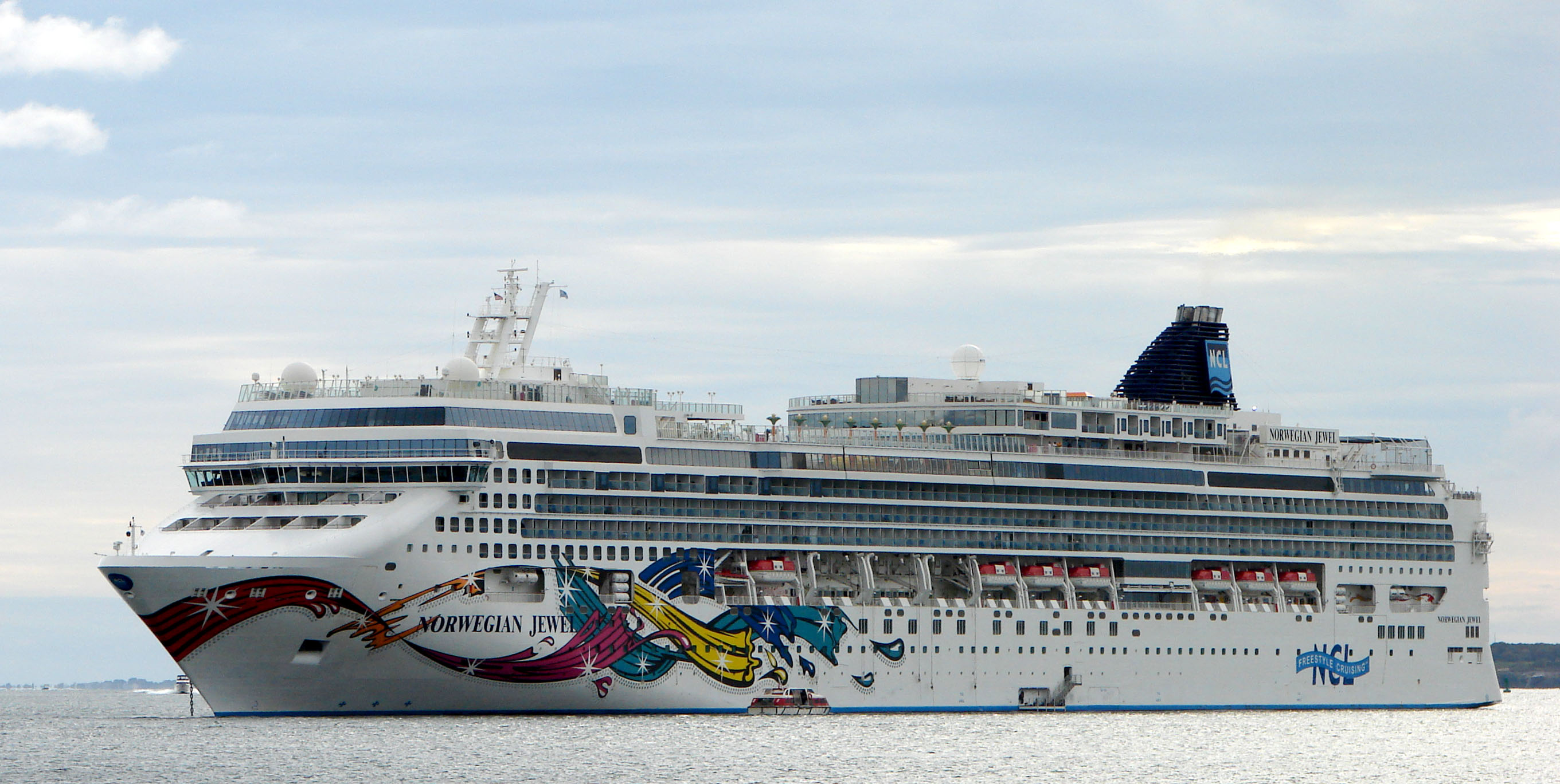 Cruise ship Norwegian Jewel lying at anchor in Newport Harbor, Rhode Island on September 12th 2010.